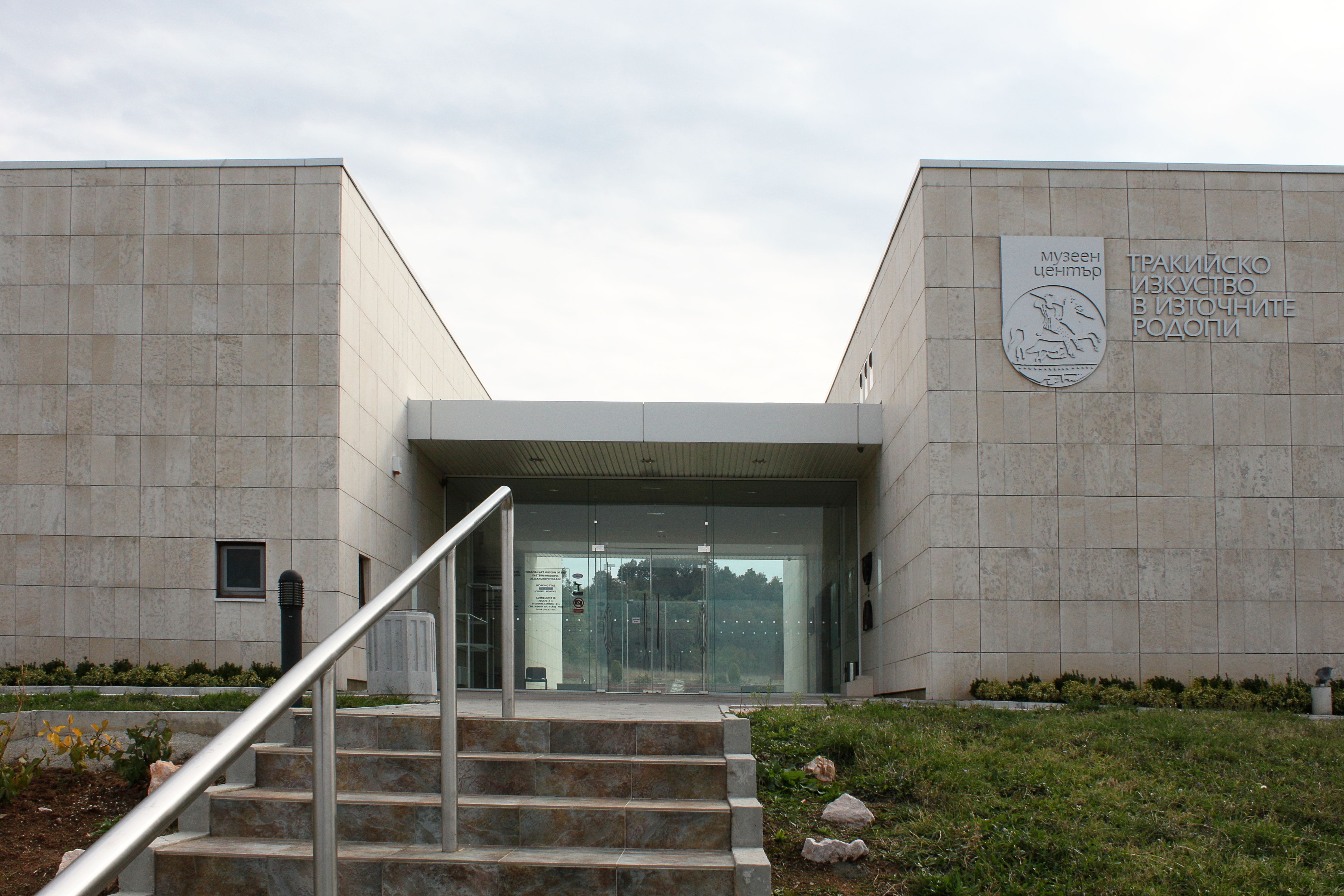 Museum Center Thracian Art in the Eastern Rhodopes, Aleksandrovo, Haskovo District, Bulgaria